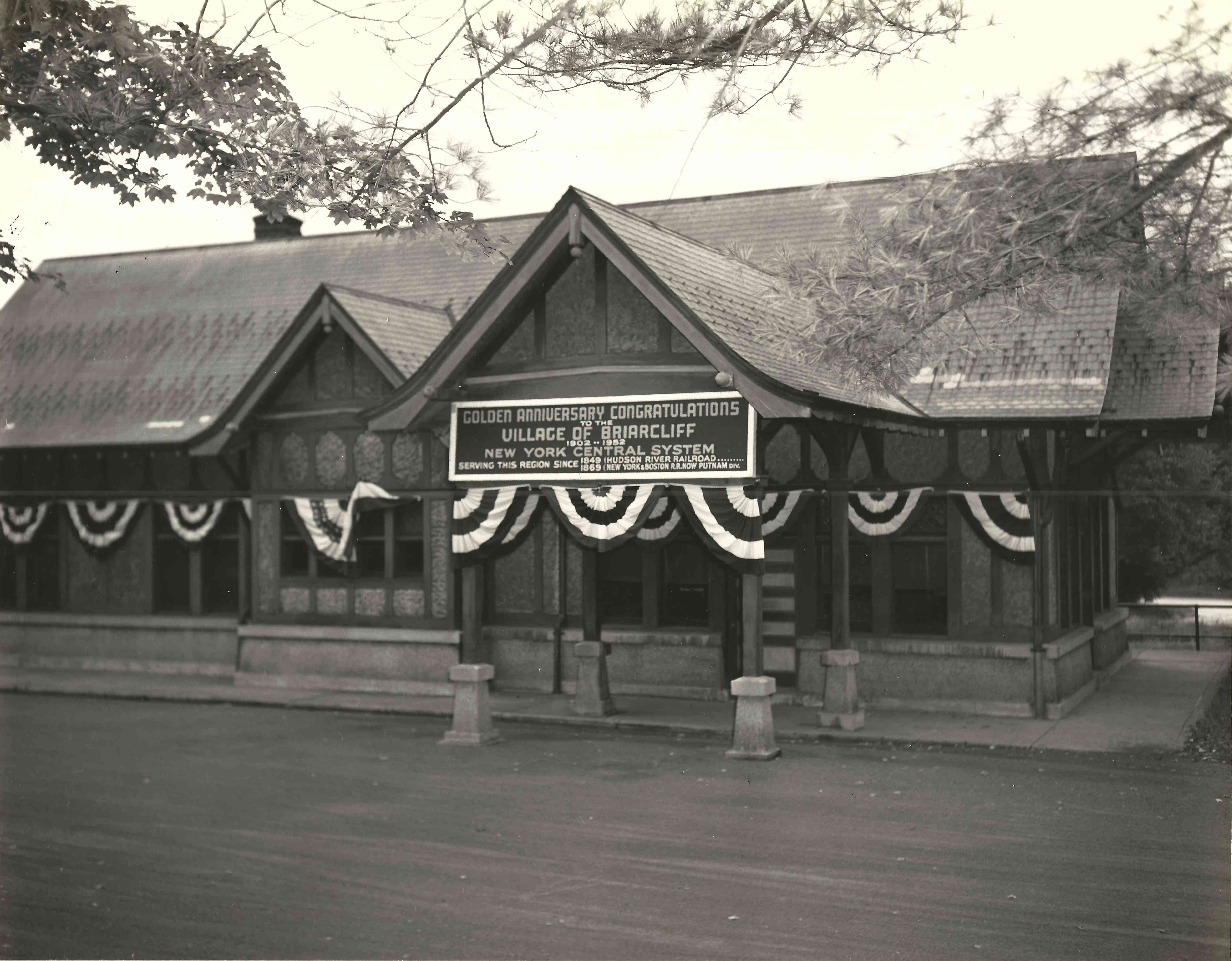 The Briarcliff Manor railroad station during Briarcliff Manor, New York's 75th anniversary.